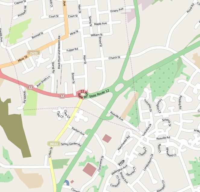 The area of Flemington, New Jersey as viewed from OpenStreetMap, an open-source mapping project.